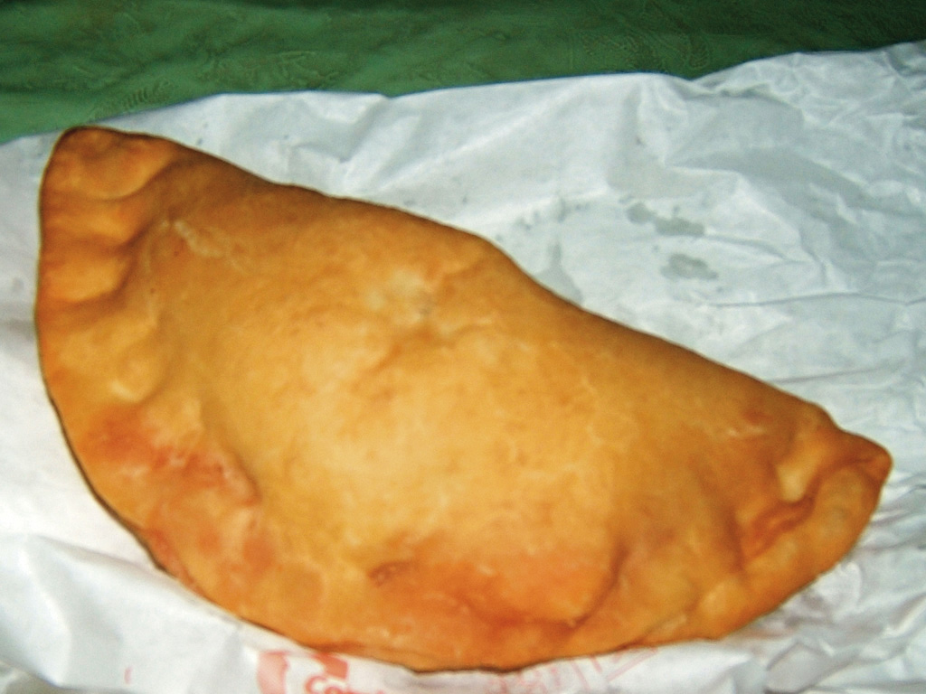 Calzone Fritto Pugliese, versione con pomodoro, mozzarella, prosciutto e oliva (Apulian fried calzone this version with tomato, mozzarella, bacon and an olive)